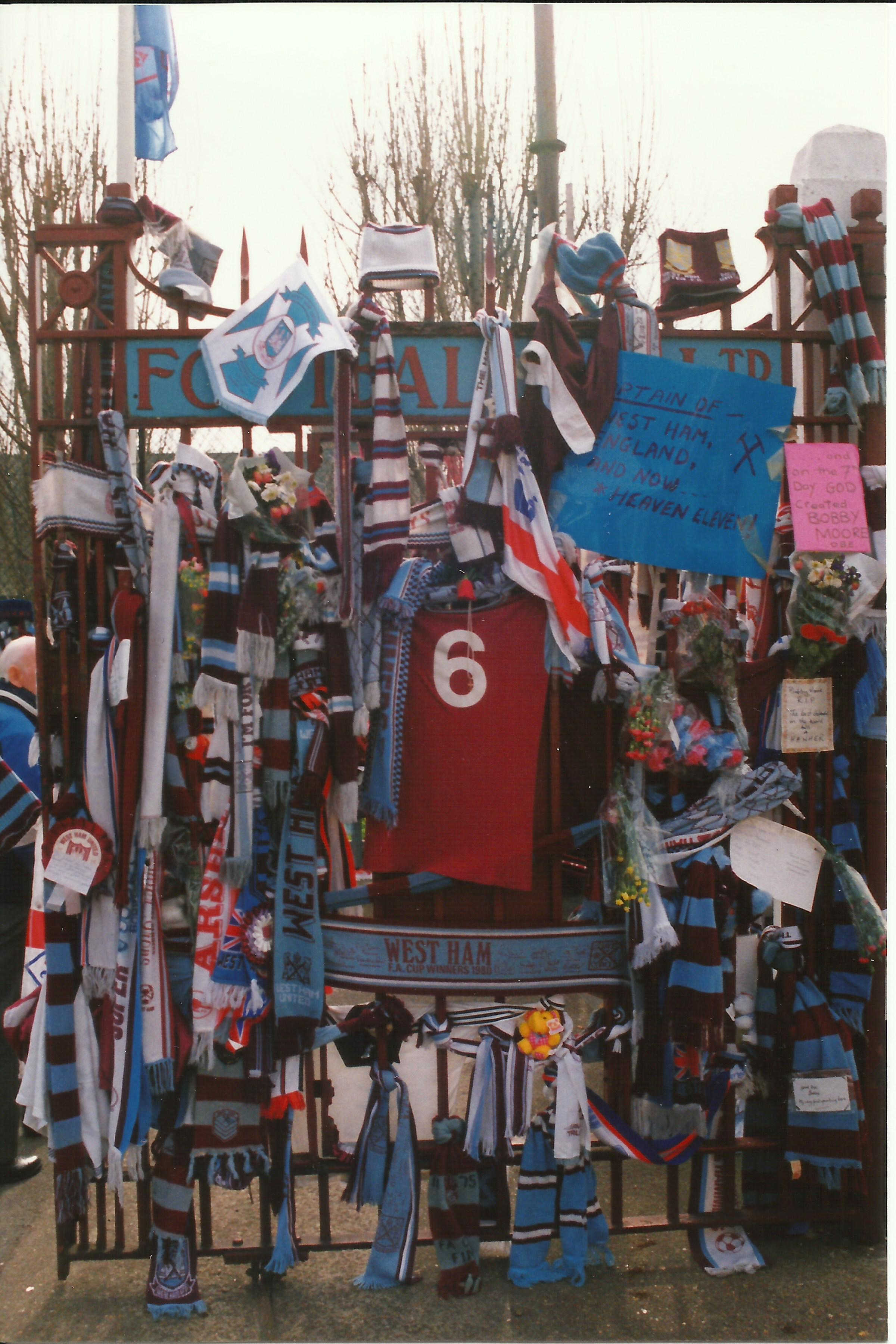 Tributes to Bobby Moore outside The Boleyn Ground before the home game v Wolverhampton Wanderers, 6 March, 1993 - the 1st home game after his death.